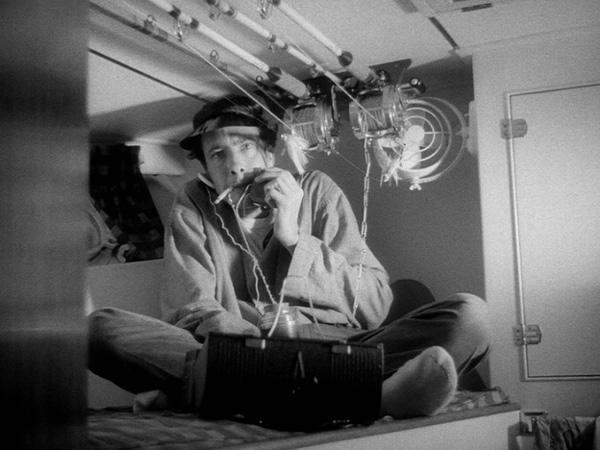 Screenshot from the film Creature from the Haunted Sea